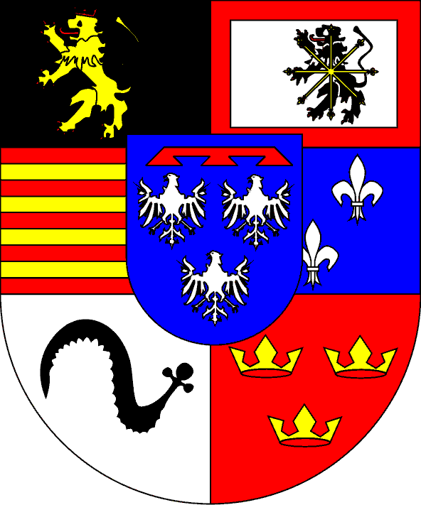 coats of arms of the principality of Leiningen (1803); 1: palatinat of Mosbach; 2: county of Dagsburg; 3: county of Rieneck, 4: lordship of Frankenberg; 5: county of Dürn; 6: lordship of Amorbach; heart: county of Leiningen